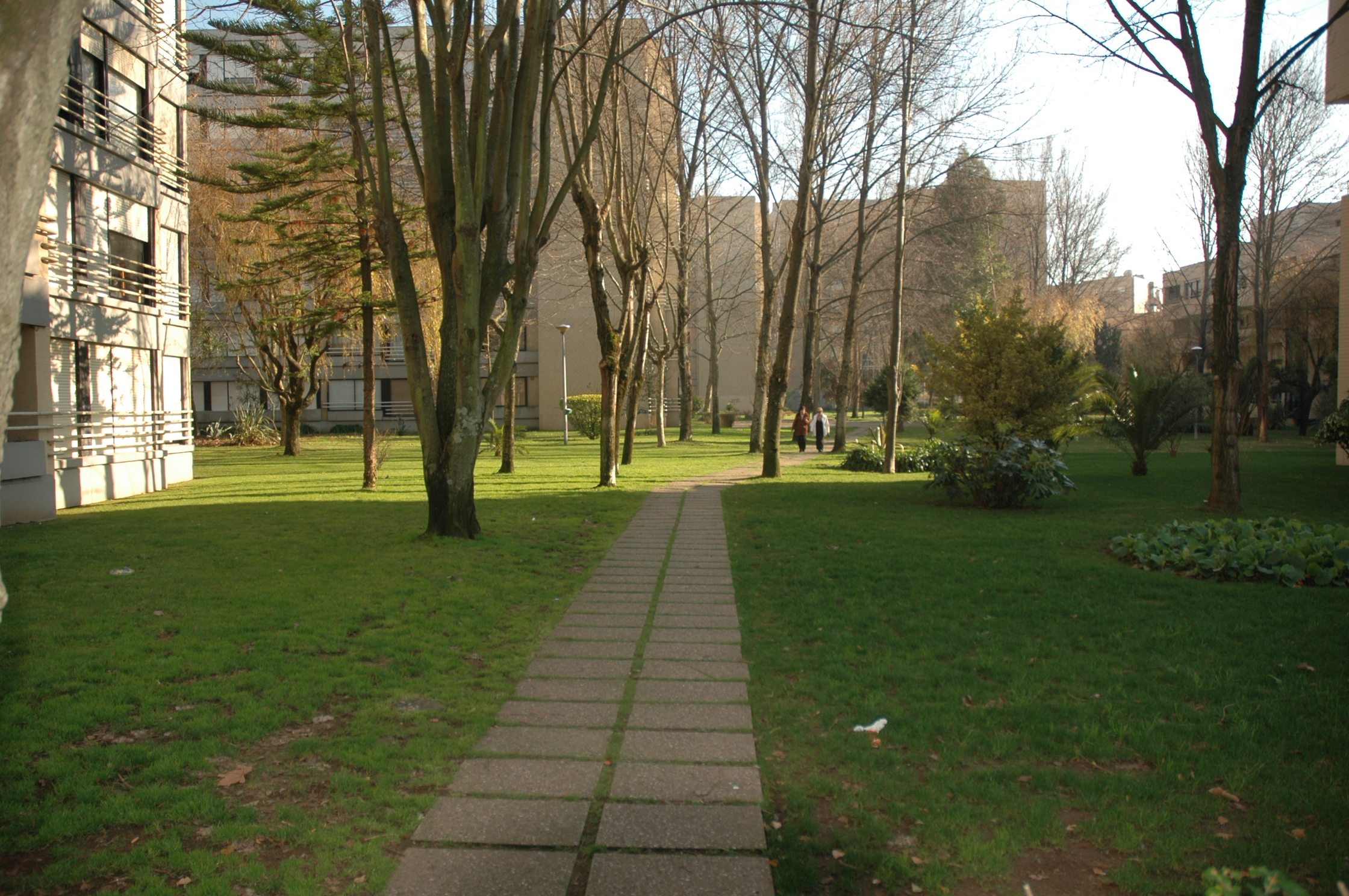 Urbanization Pinhais da Foz - Porto. Arq. Hargreaves da Costa Macedo